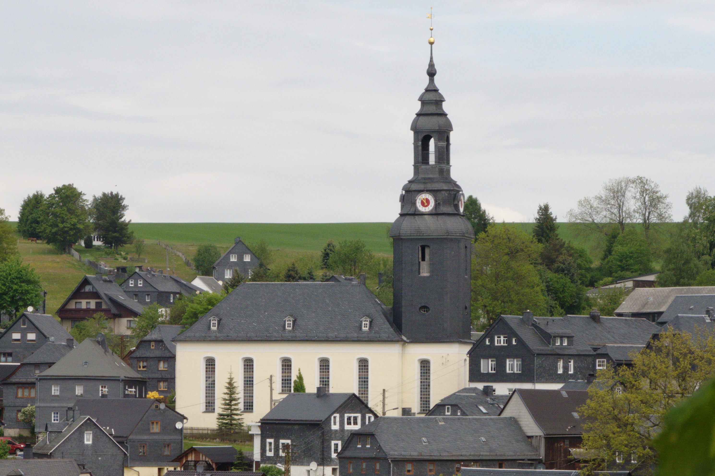 Church in Wurzbach, Thüringen, Germany.